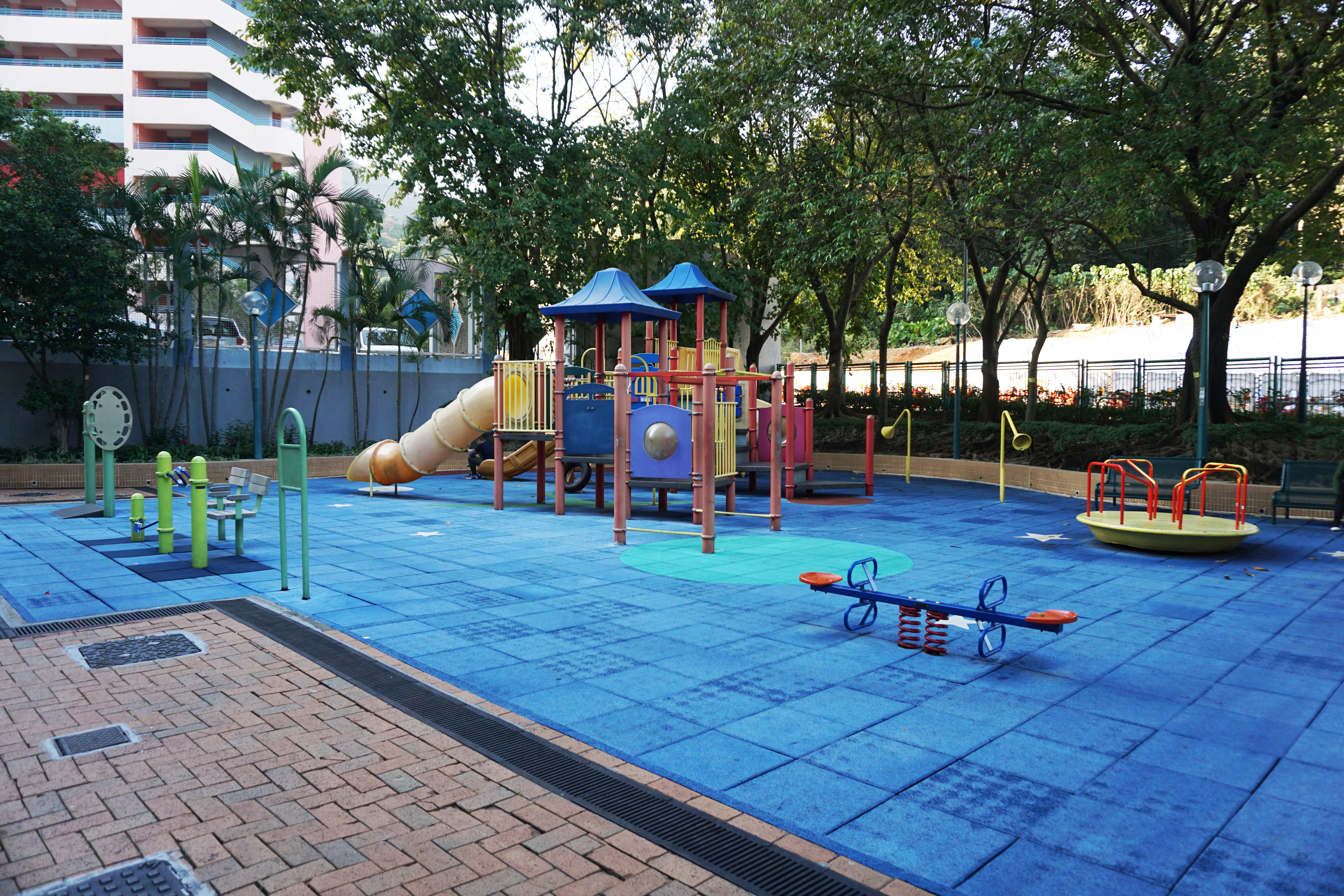 Po Tin Estate in Tuen Mun, Hong Kong.